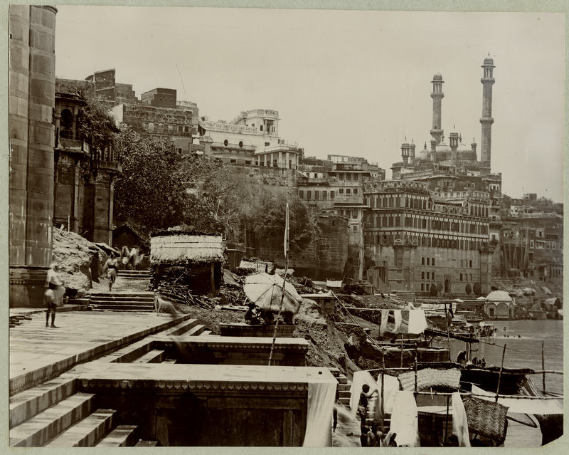 Benares Ghats